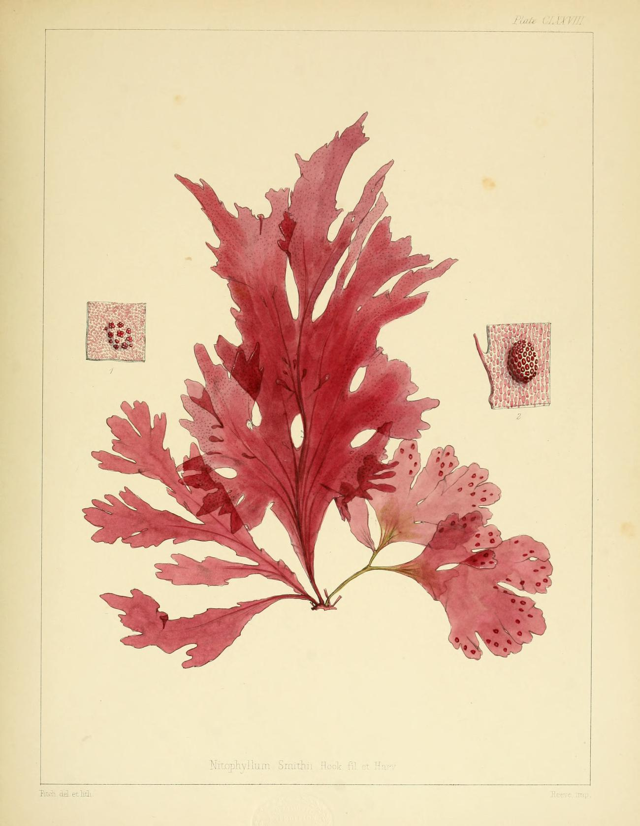 Illustration of Nitophyllum smithi in Flora Antarctica. Drawn and engraved by Walter Hood Fitch.